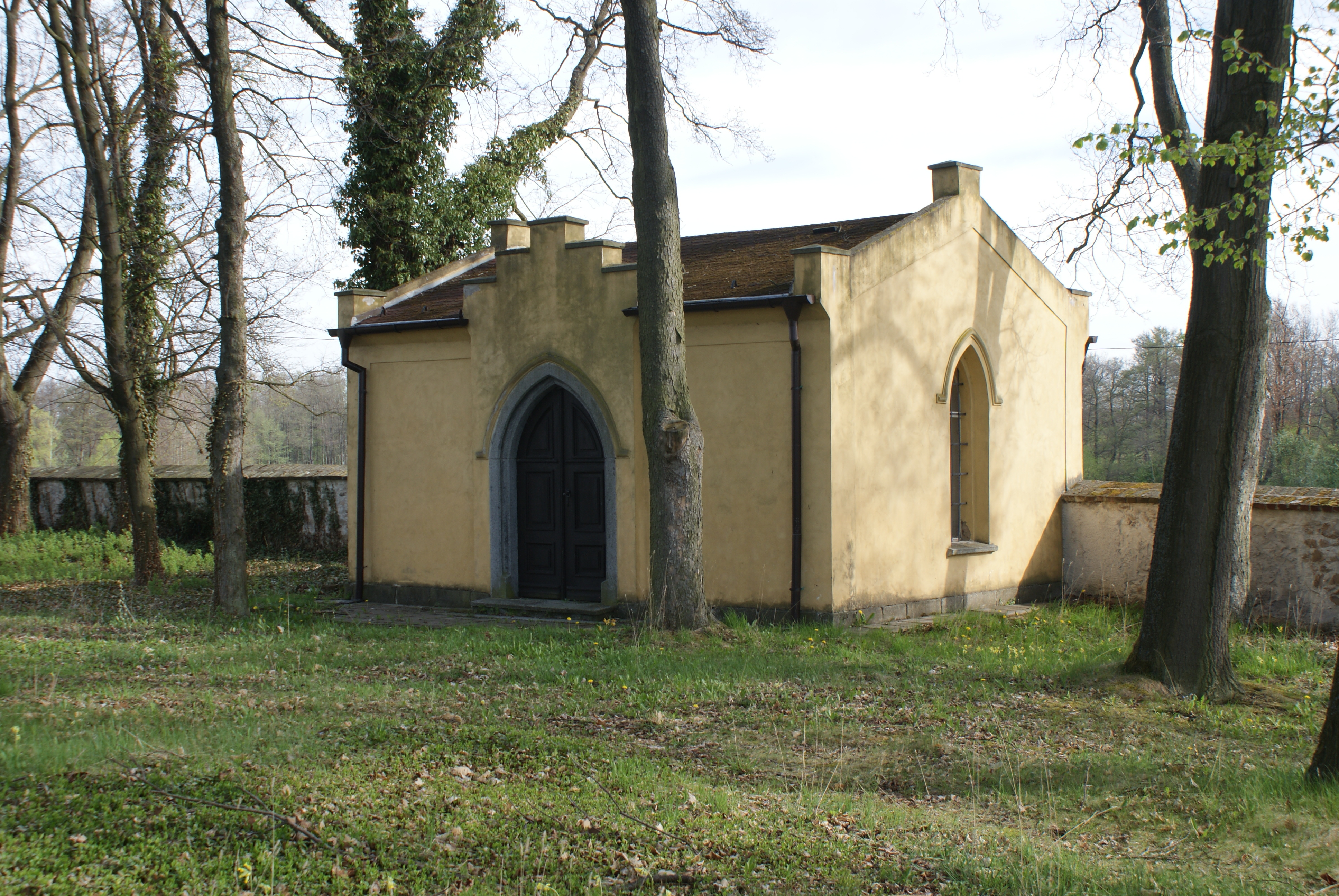 The ceremonial hall at the Jewish cemetery in Březnice, Příbram District, Czech Republic.